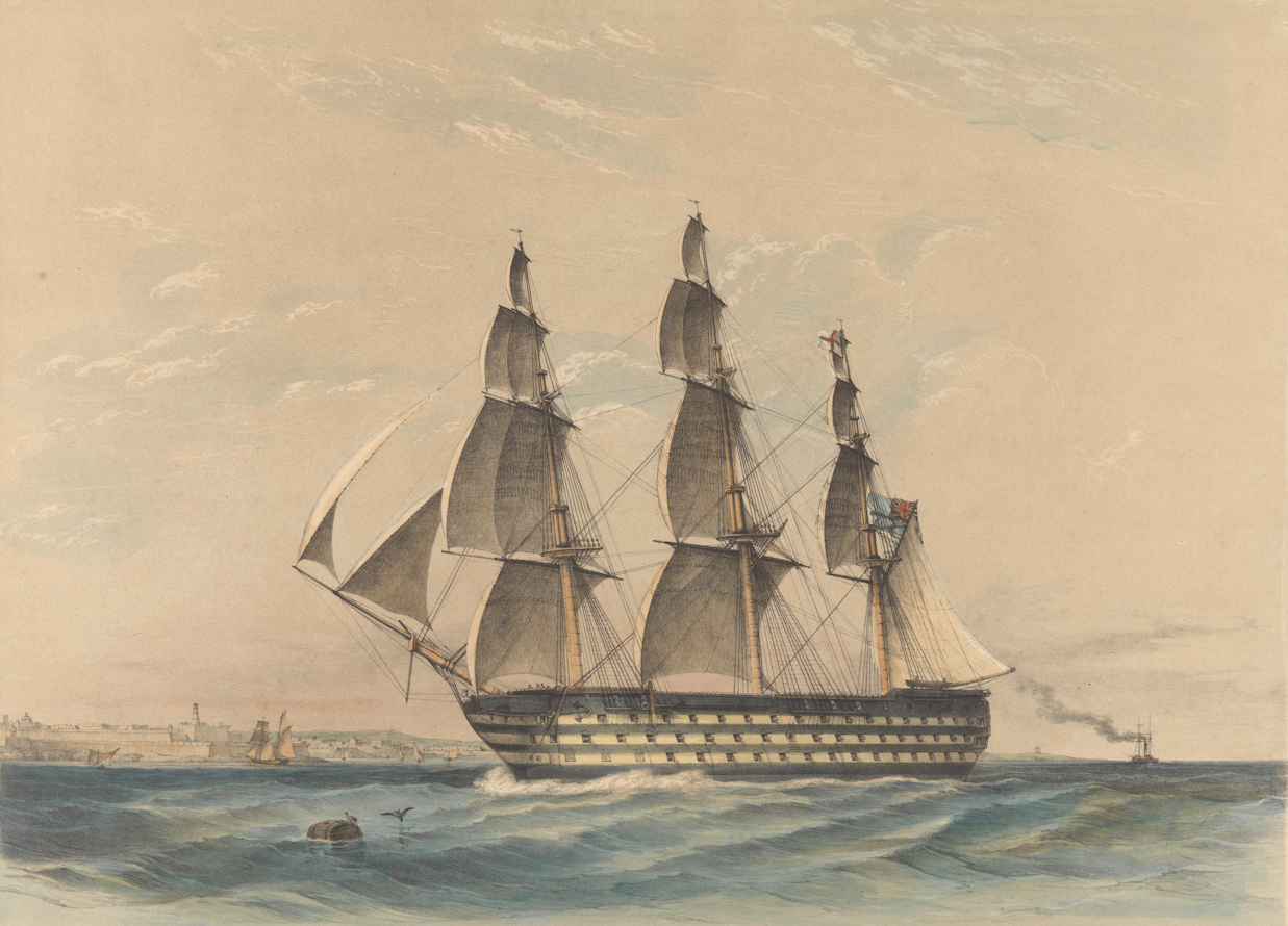 H.M.S. Howe... entering Malta Harbour 1843 Port broadside view of the Howe, a 1st rate, 120 gun, Royal Navy warship, under full sail in a following wind, entering the harbour at Malta. A fort, lighthouse and various houses can be seen in the distance, as well as small sailing craft and, on the right-hand side, a steam paddle ship.